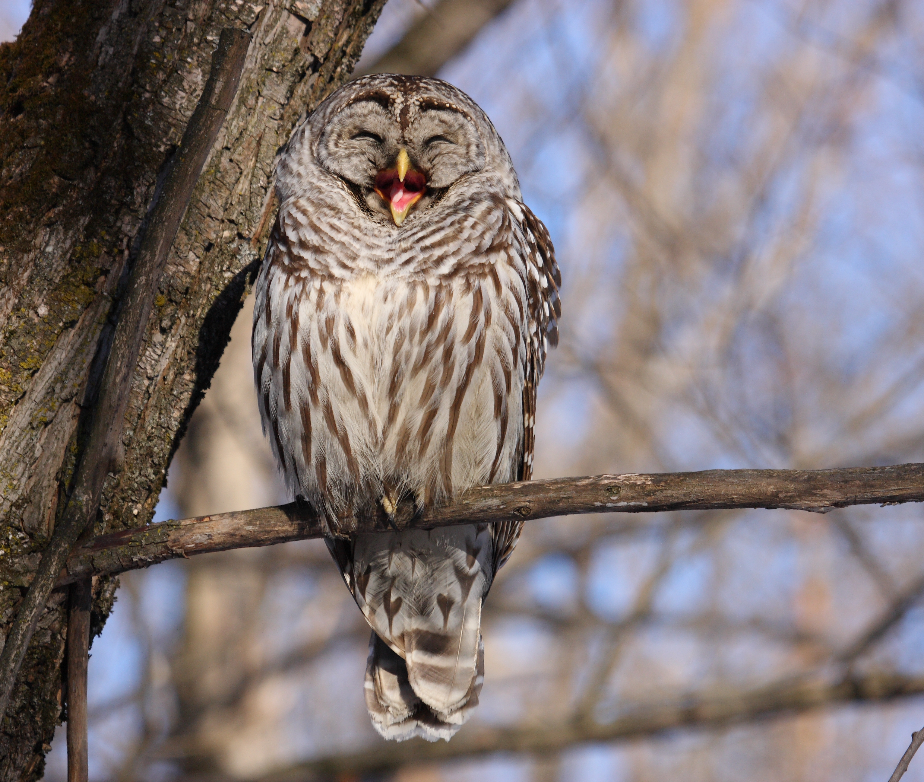 Barred Owl (Strix varia) yawning, Domaine Maizerets, Quebec City, Canada